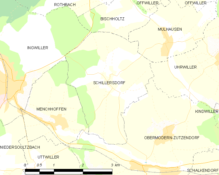 Map of French municipality